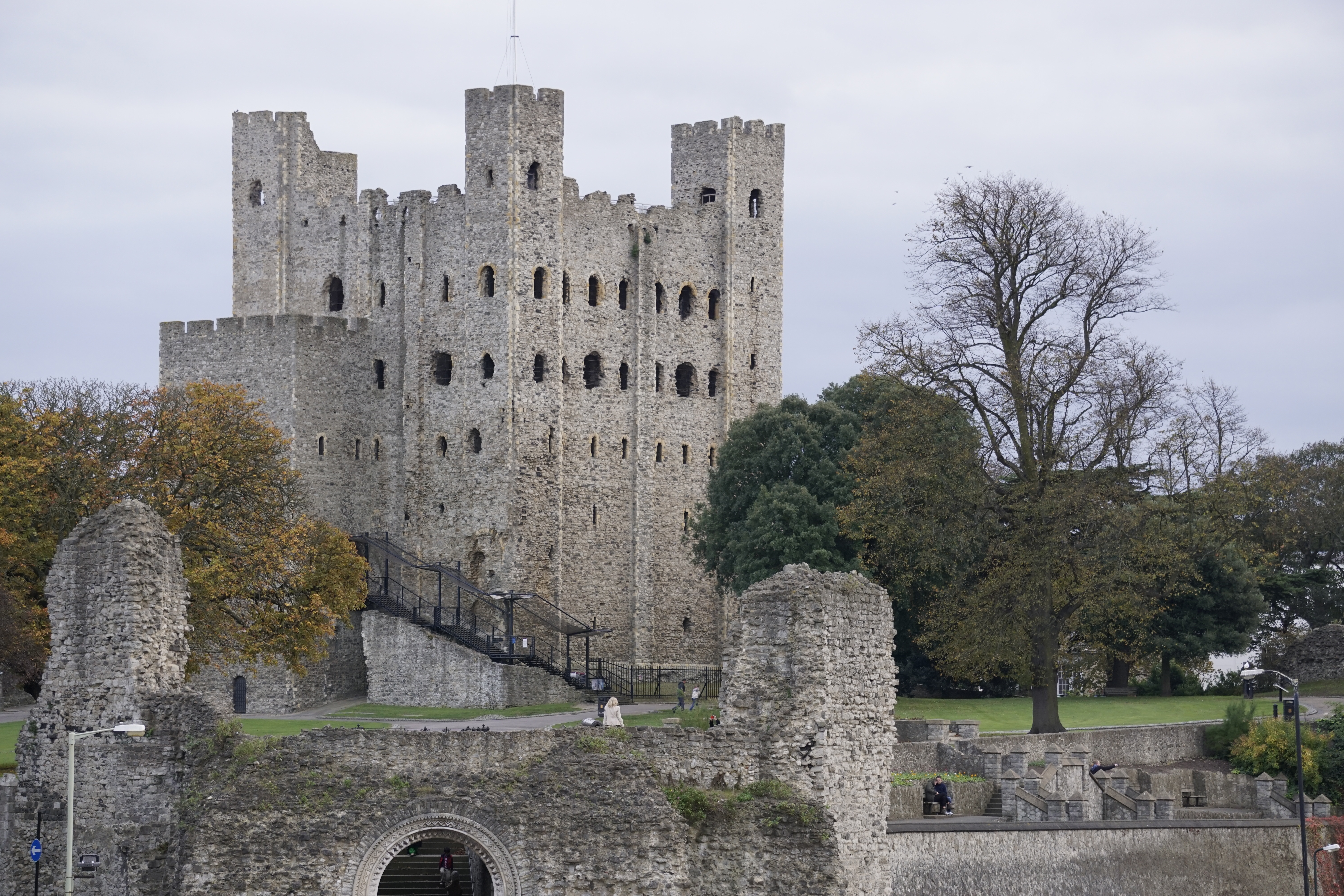 View of the Keep from the Medway bridge